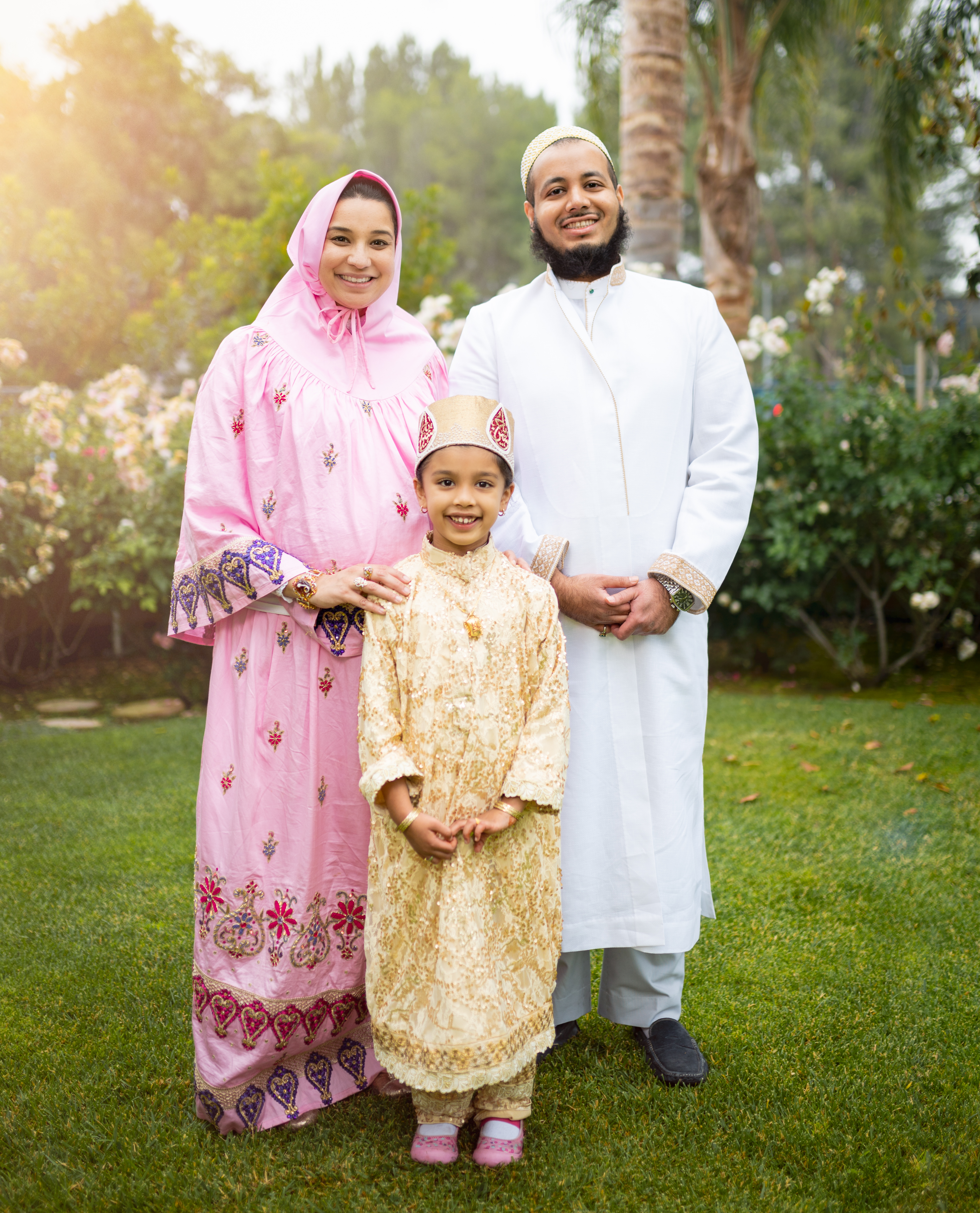 Dawoodi Bohra Family Portrait & Attire